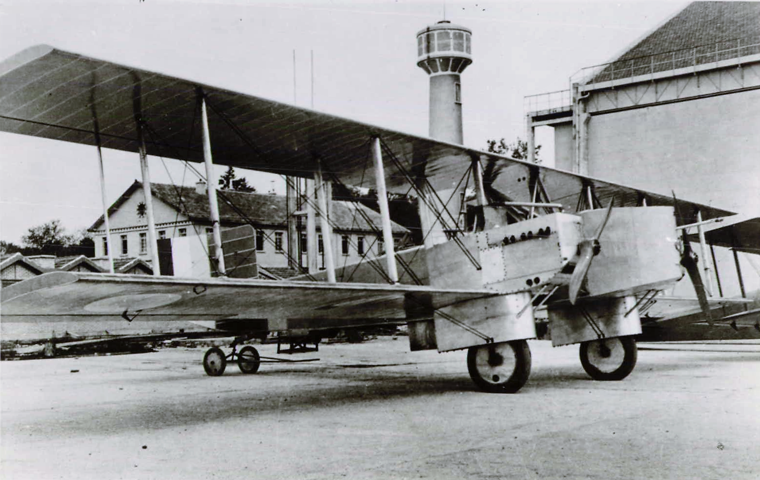 LeO 12 right front quarter from NACA Aircraft Circular 1